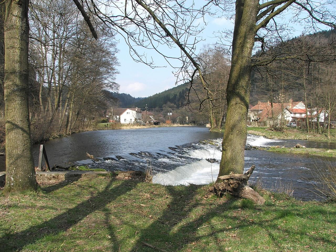 Svratka River in village of Koroužné, Žďár nad Sázavou District, Czech Republic